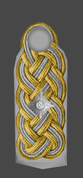 Rang insignia shoulder strap, here “SS-Gruppenfuehrer and Lieutenant general of the Waffen-SS” (today comparable to NATO OF-7) until 1945.